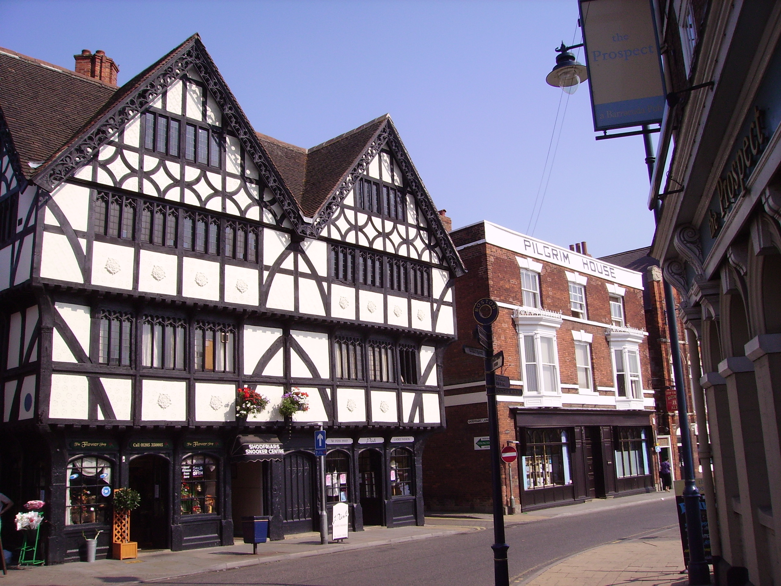 view of Boston in Lincolnshire, United Kingdom